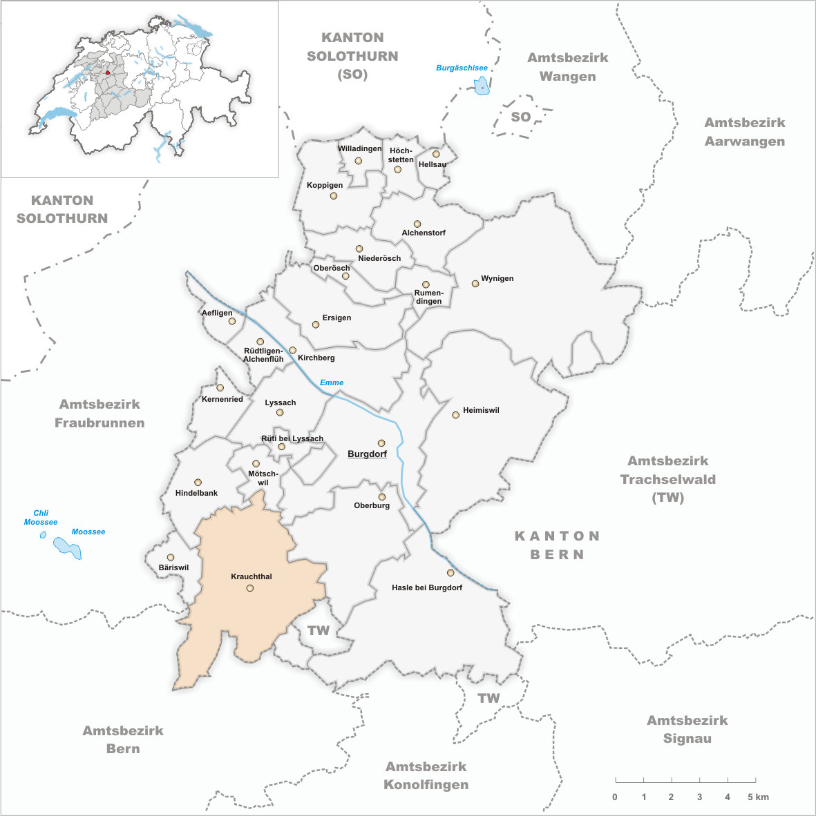 Municipality Krauchthal